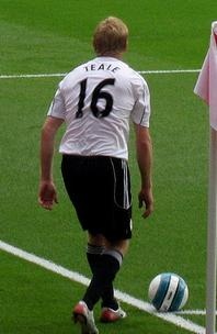 Scottish football (soccer) player Gary Teale